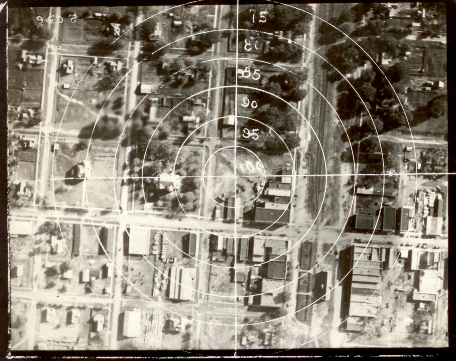 Bombsight on a World War I training flight.